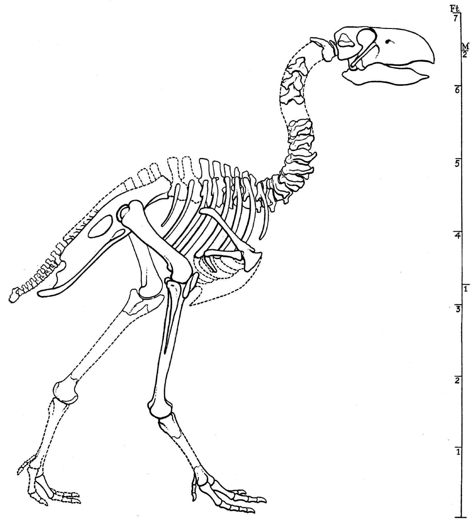 Skeletal restoration of Gastornis giganteus (formerly Diatryma steini).